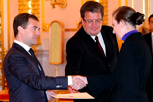 THE KREMLIN, MOSCOW. Ambassador of Australia Margaret Aileen Twomey presents her letter of credentials to the President of Russia.